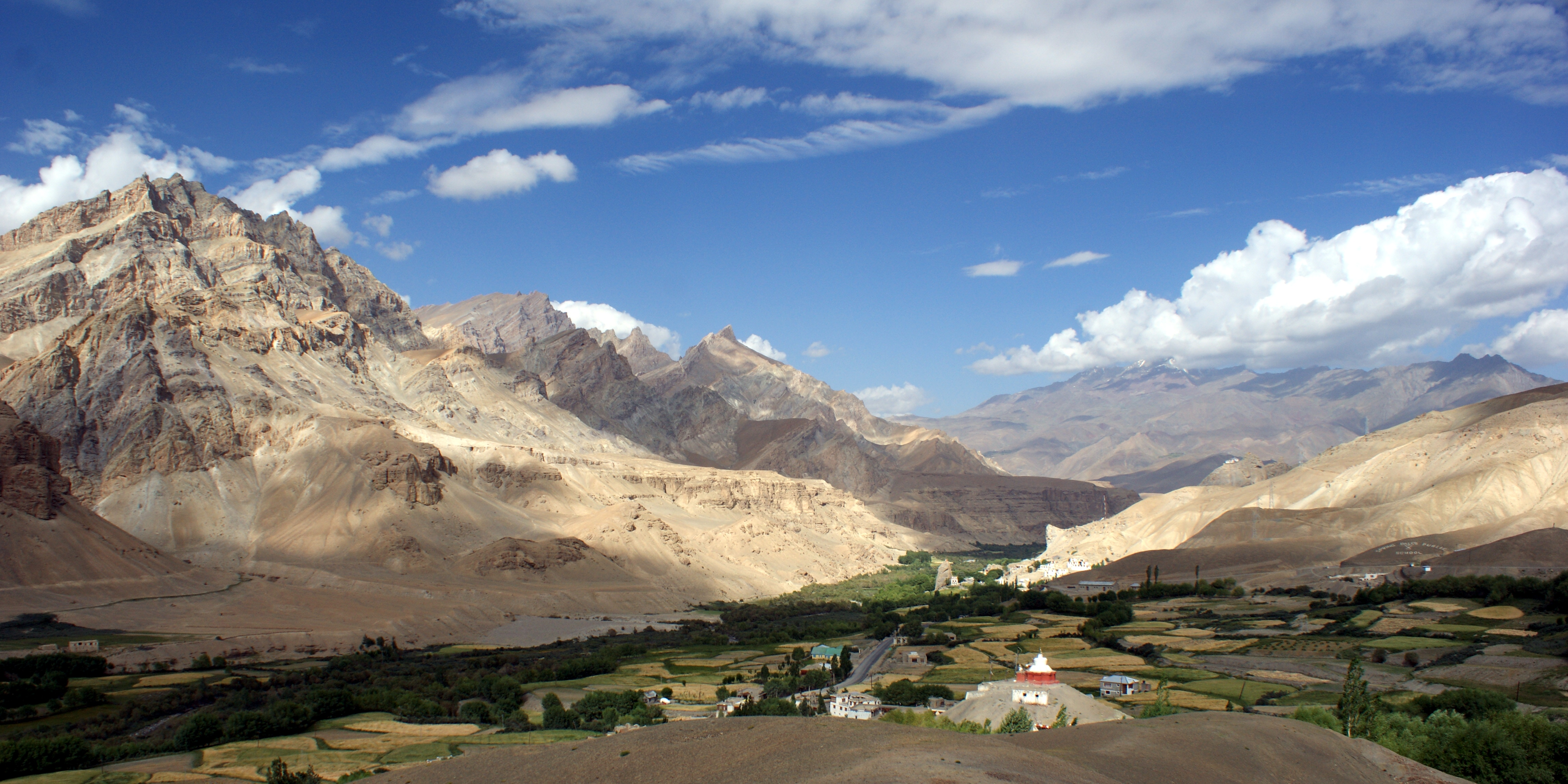 Mulbekh Town as seen from a nearby hill. View towards south east